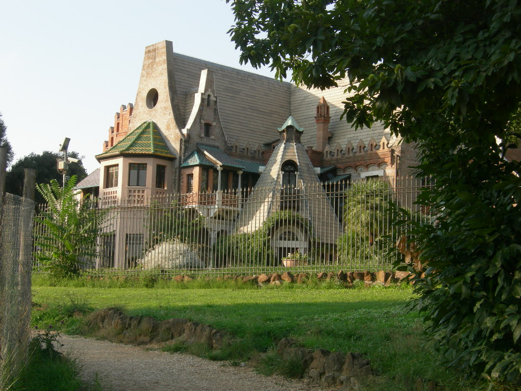 Side view of the Casina delle Civette, a building in Villa Torlonia, Rome.